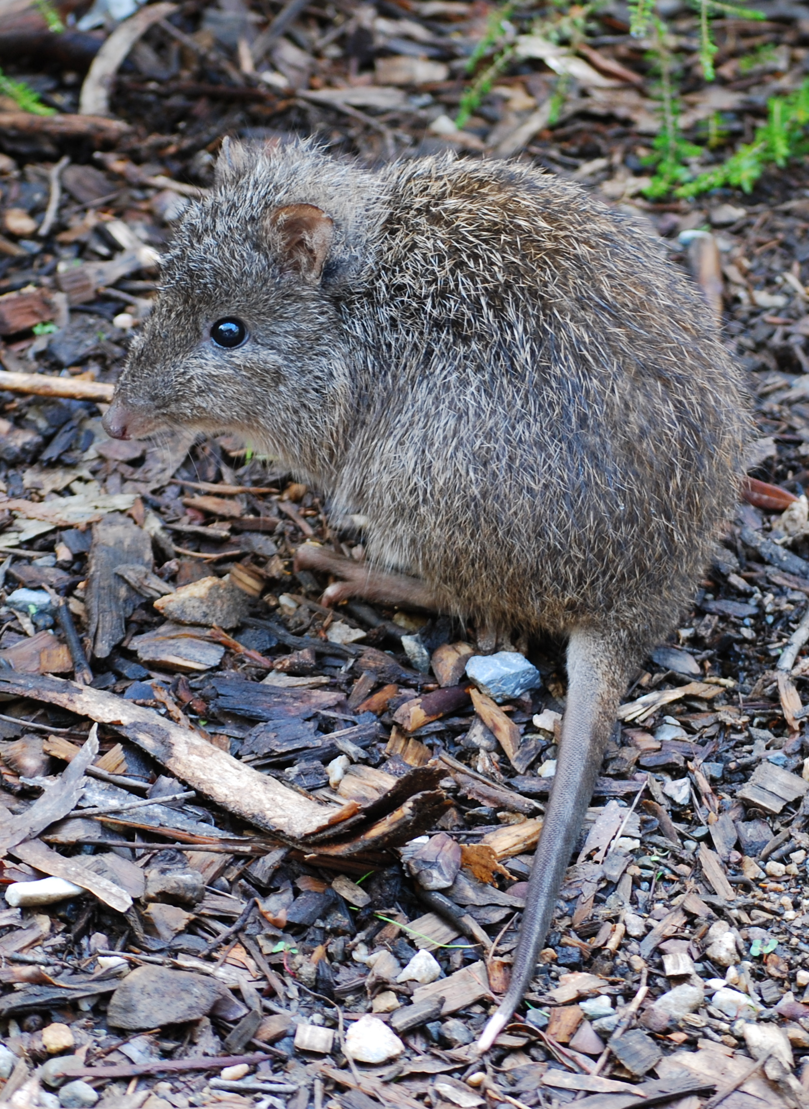 Long-nosed Potoroo (Potorous tridactylus). At Cleland Wildlife Park, South Australia